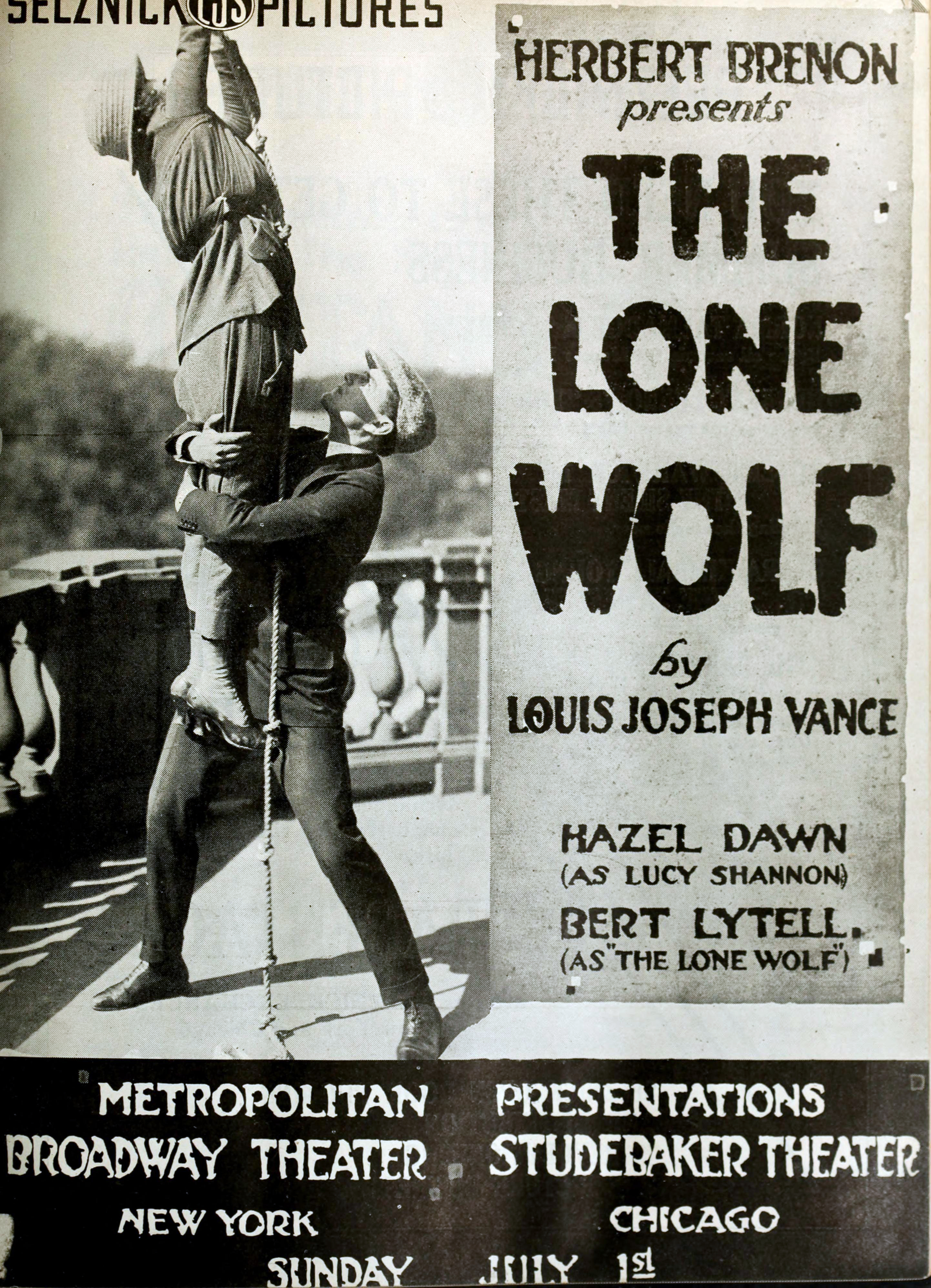 Advertisement in Moving Picture World, July 1917 for the film The Lone Wolf (1917) with Bert Lytell and Hazel Dawn.